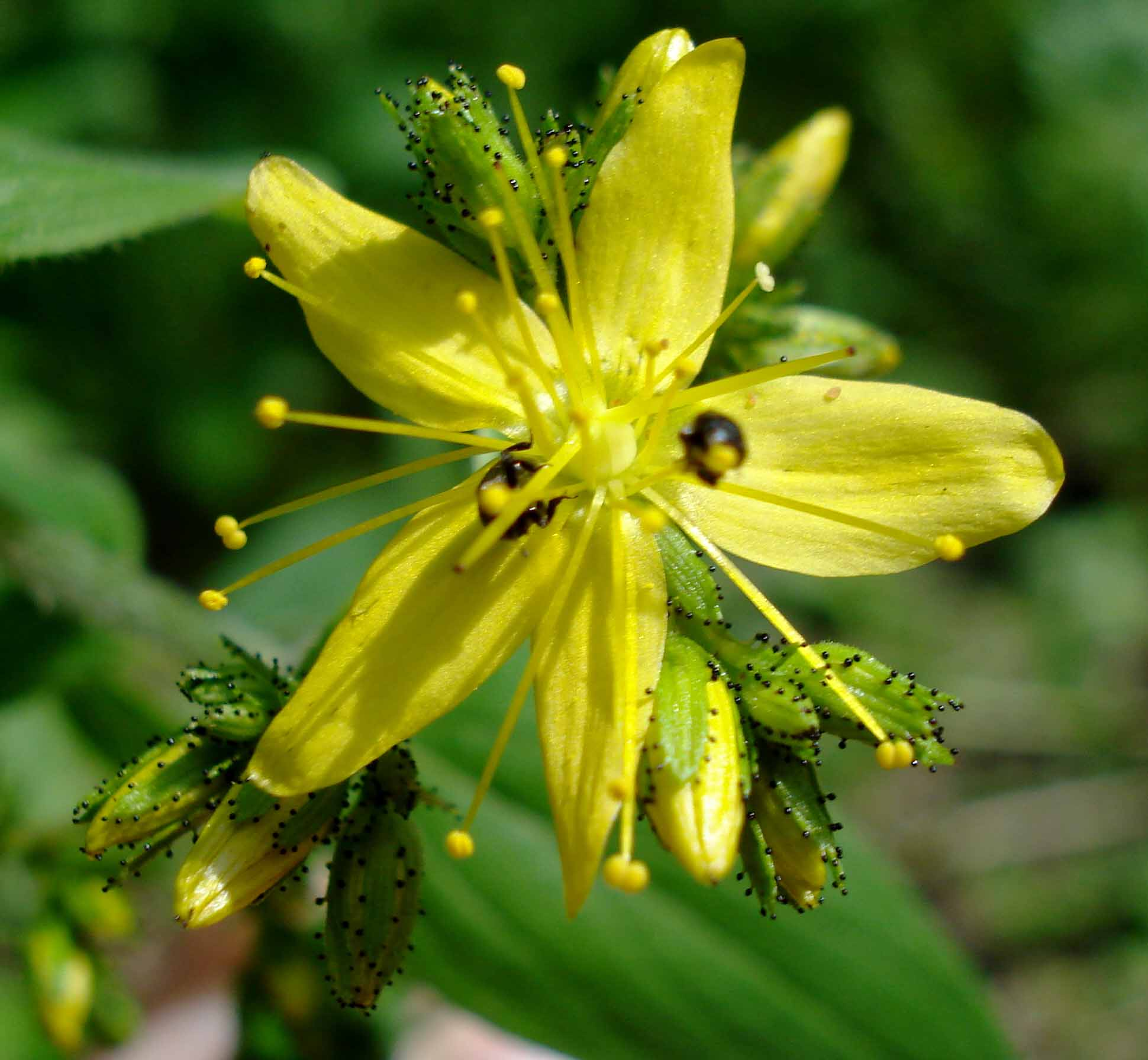 Hypericum hirsutum (Unterfranken, Germany)